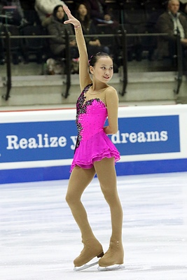 Junior World Championships 2015 (Shuran YU SIN – 24th Place)